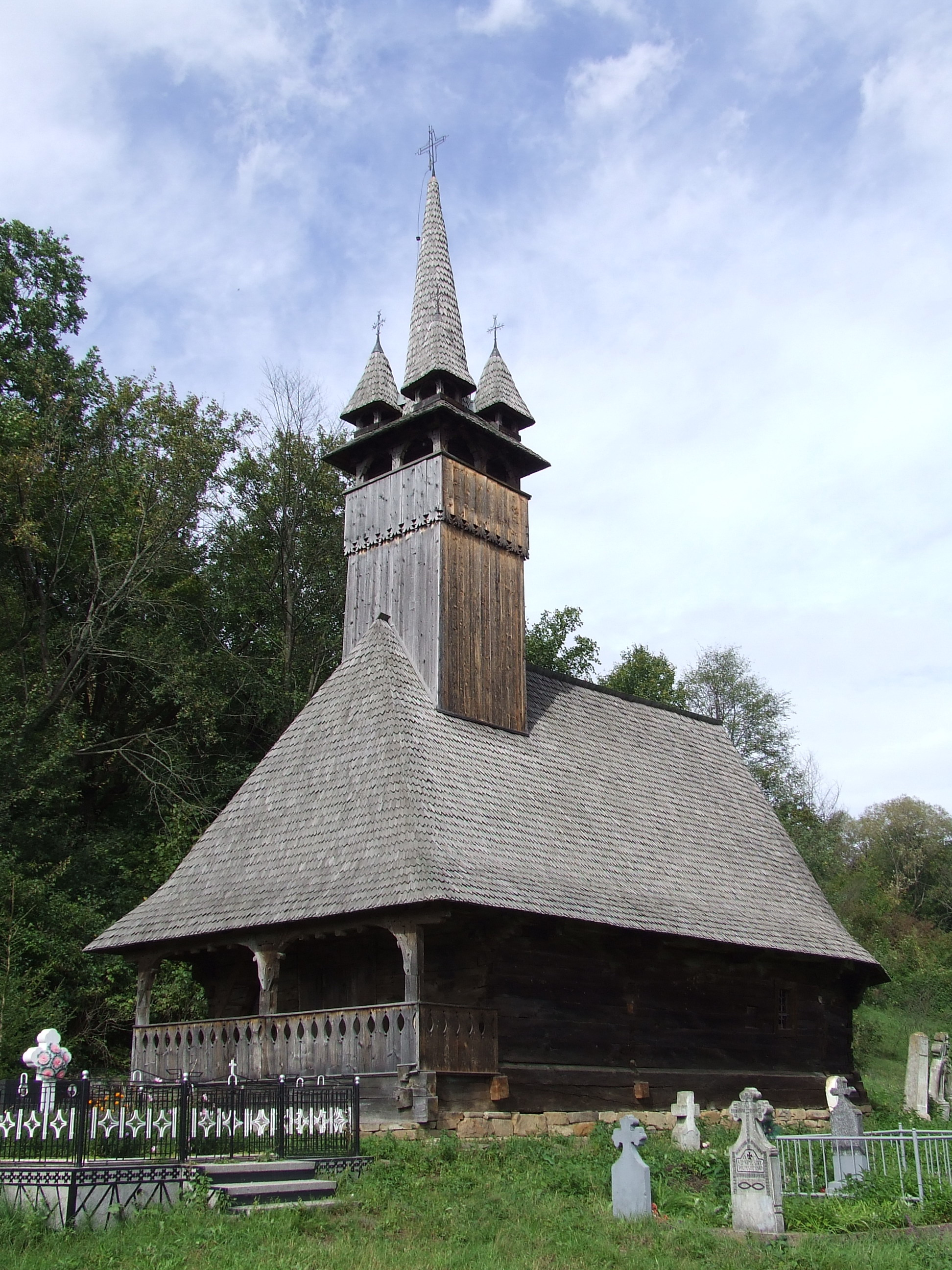 Wooden church, built in the village of Glod (Sălaj County) in 1740 was moved to the village of Răzoare (Maramureş County), Romania in 1867